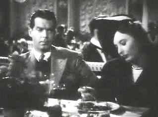 Cropped screenshot of Fred MacMurray and Barbara Stanwyck from the trailer for the film Remember the Night (1940).